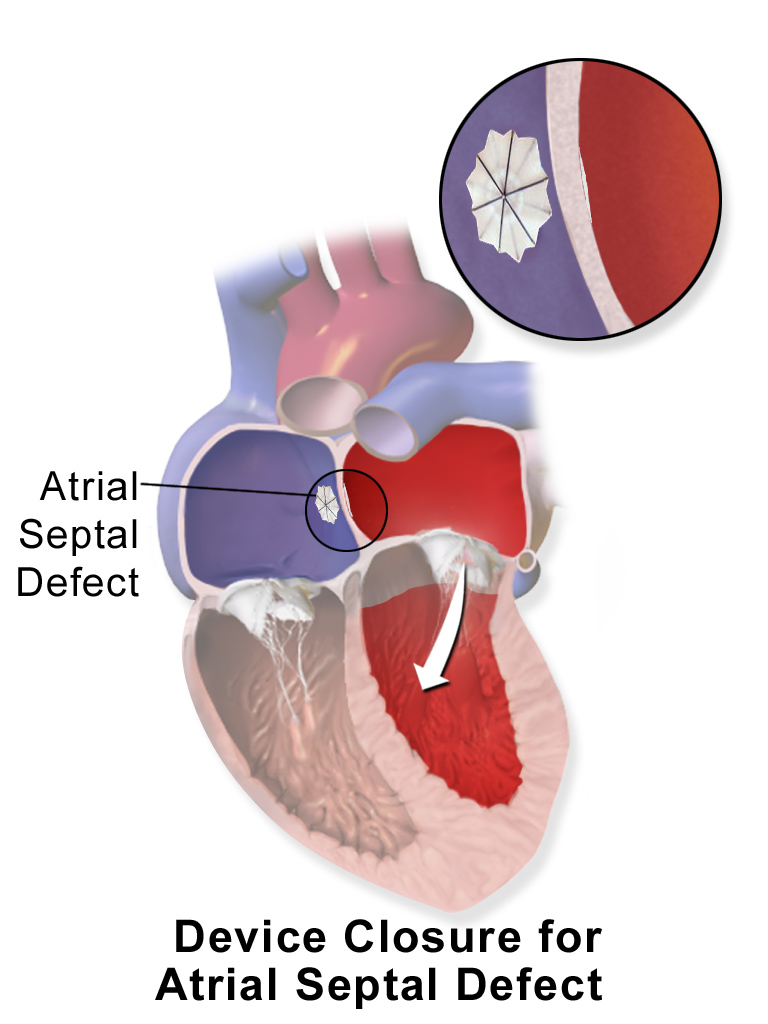 Device Closure for Atrial Septal Defect. See a full animation of this medical topic.